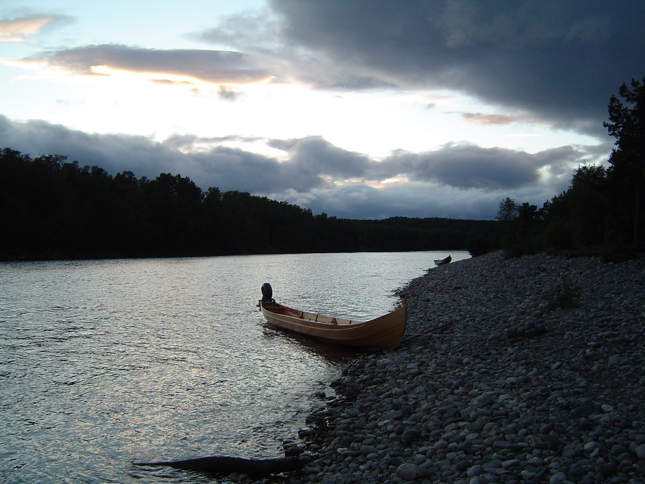 Altaelva river, Finnmark, Norway